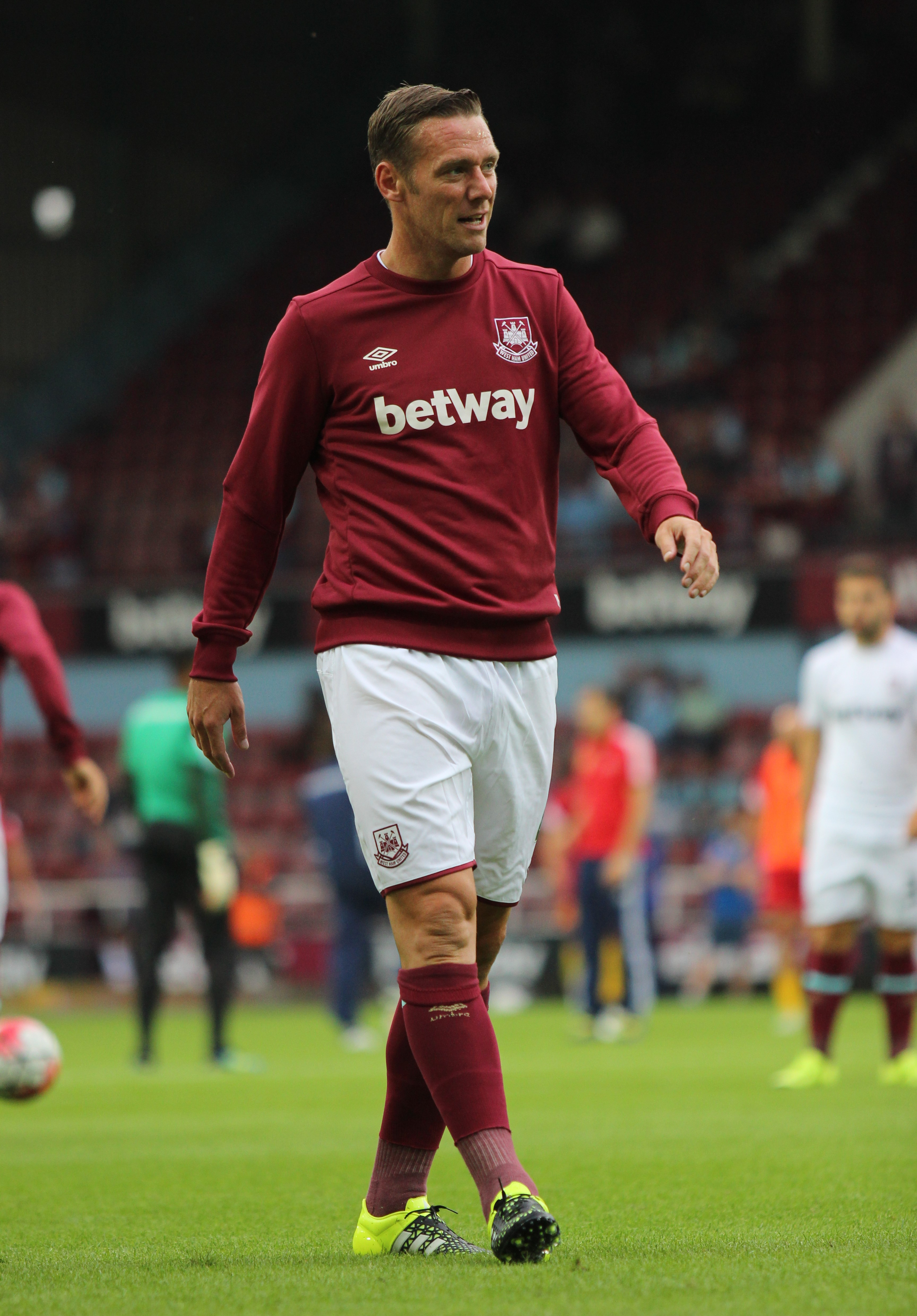 Kevin Nolan of West Ham during the warm up before the game against Birkirkara.